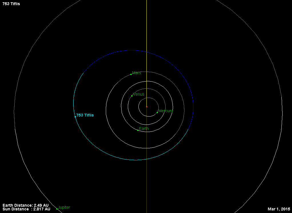 753 Tiflis orbit and his position on 01 Mar 2014 (NASA Orbit Viewer applet)